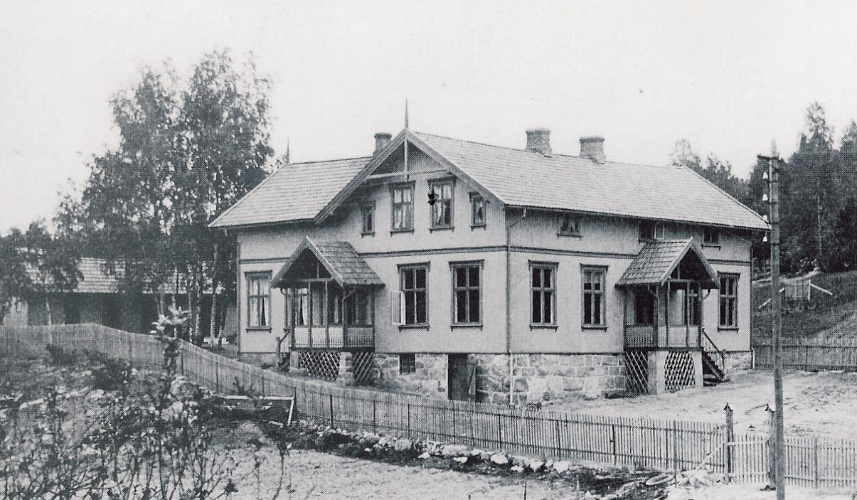 Picture of the old public school in Greverud